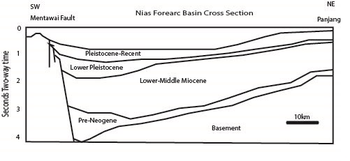 Cross-section of Nias Basin from the Mentawai Fault to Panjang